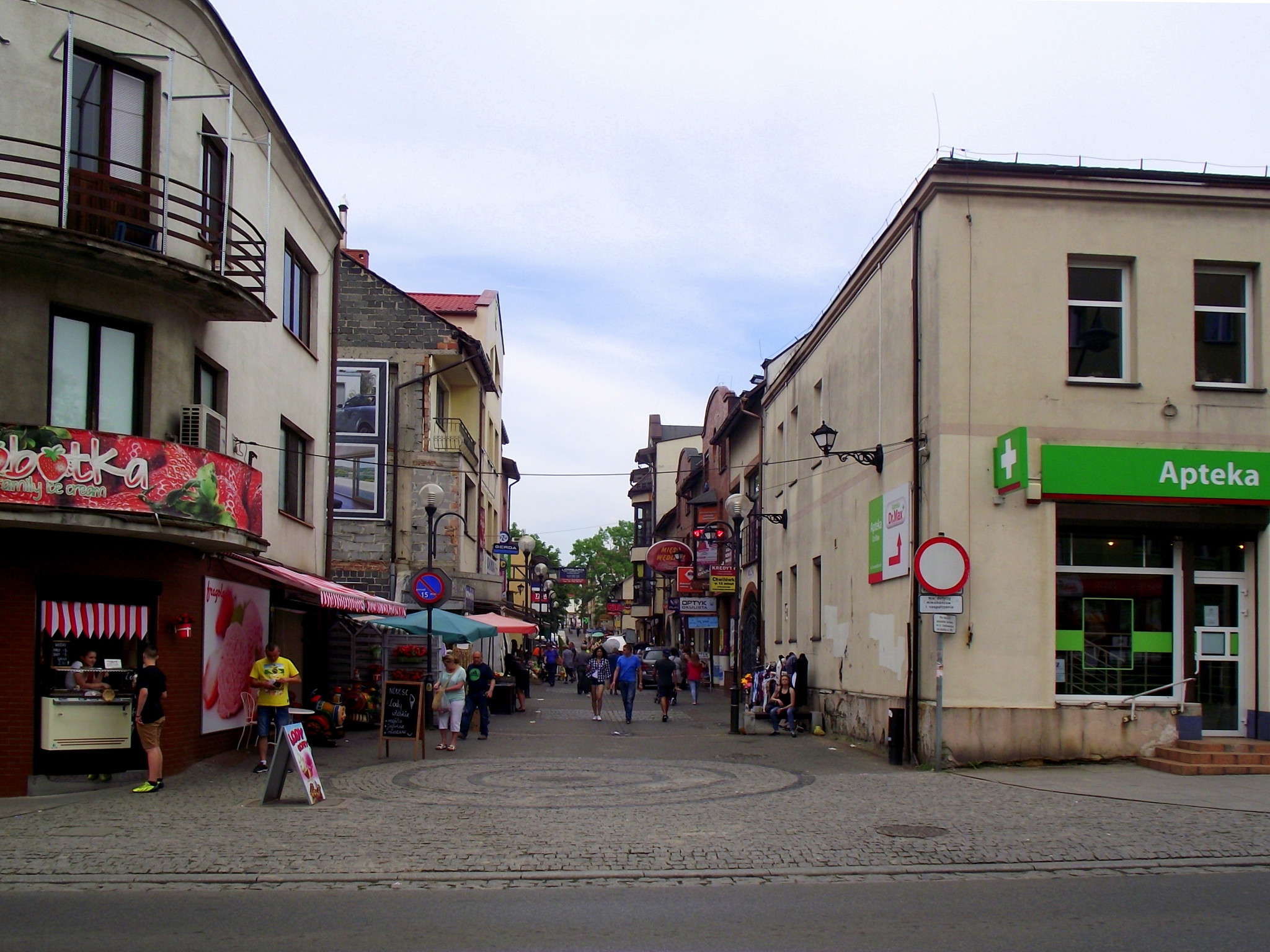 Jaworzno (Poland), pedestrian zone - Sienkiewicz-Street.